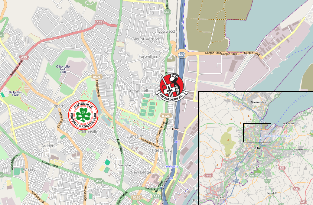 Map of locations of Northern Irish football clubs Cliftonville FC and Crusaders FC who contest the North Belfast derby.